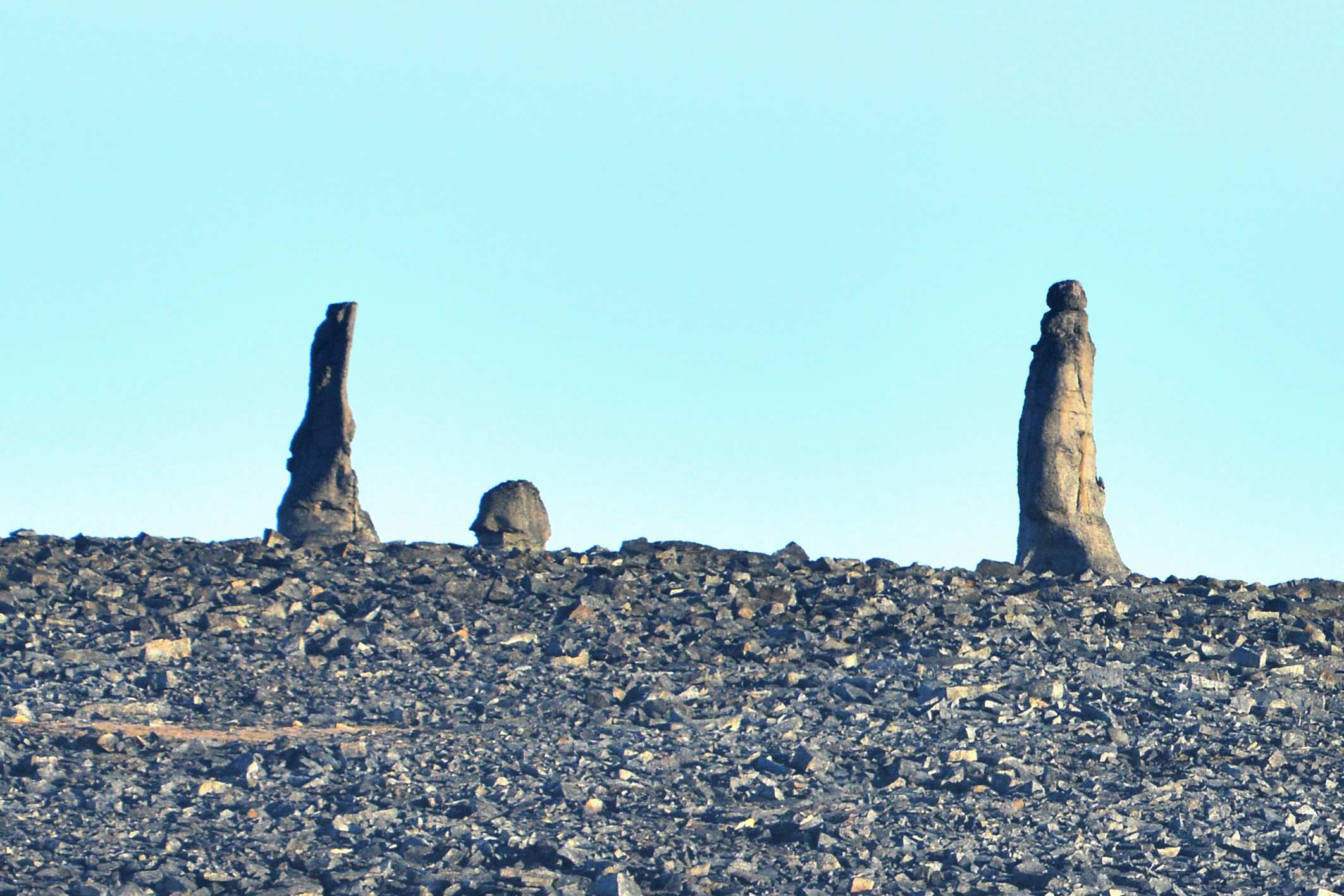 Granite columns on Chetyrokhstolbovoy Island (Medvezhyi Islands, Russia; 70°37‘50‘‘N, 162°22’30’’E)